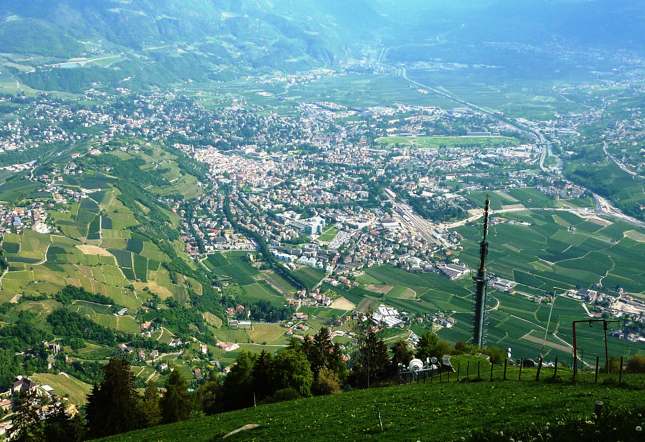 Italian City of Meran/Merano - View from Northwest